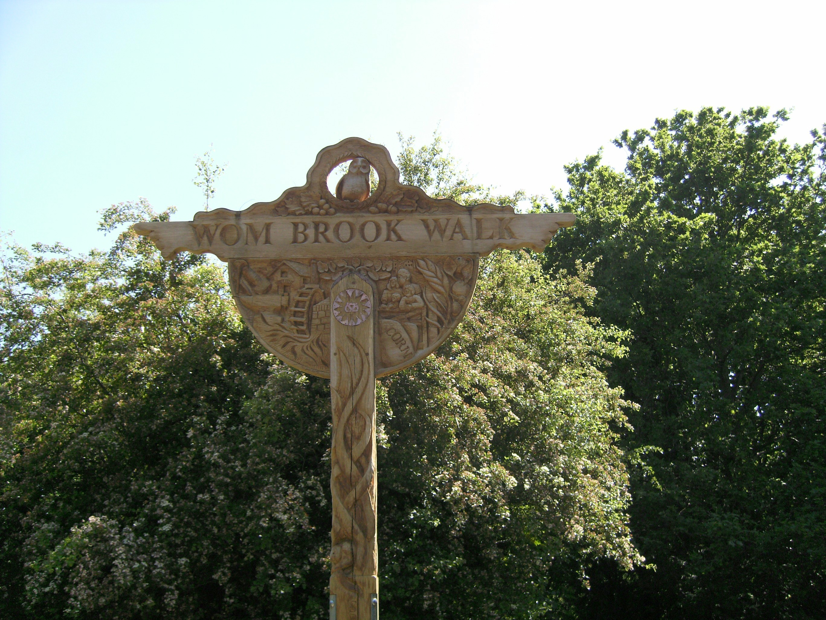 Wom Brook Walk sign, Wombourne, South Staffordshire, England